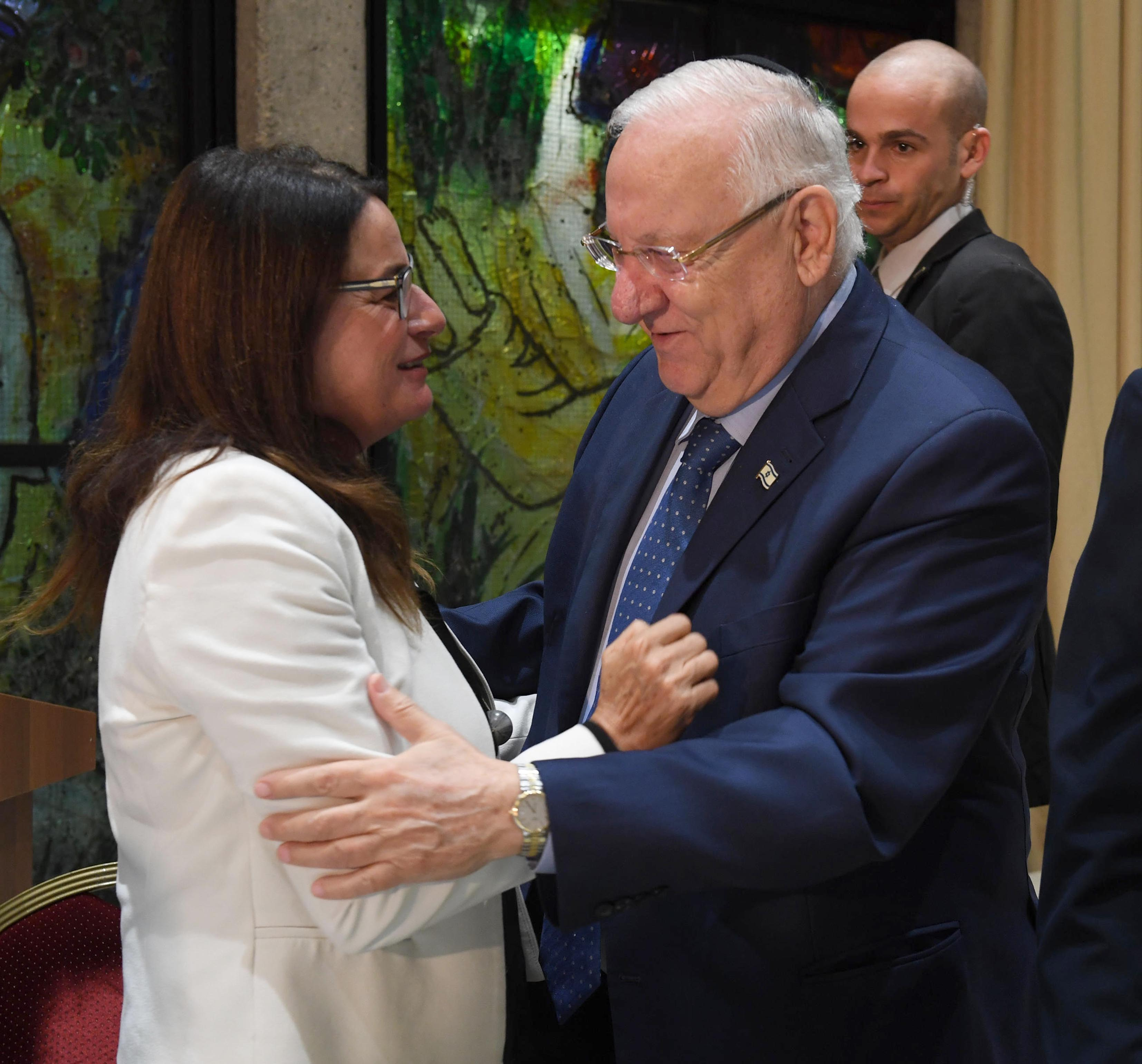 The President of the State of Israel, Reuven Rivlin, and his wife host Project 929: Tanakh B'yachad, in which Rona Ramon, Rabbi Shai Firon and Rabbi Benny Lau discussed the subject of "Job meets Israeli society." Sunday, November 19, 2017. Photo Credit: Mark Neyman / GPO.